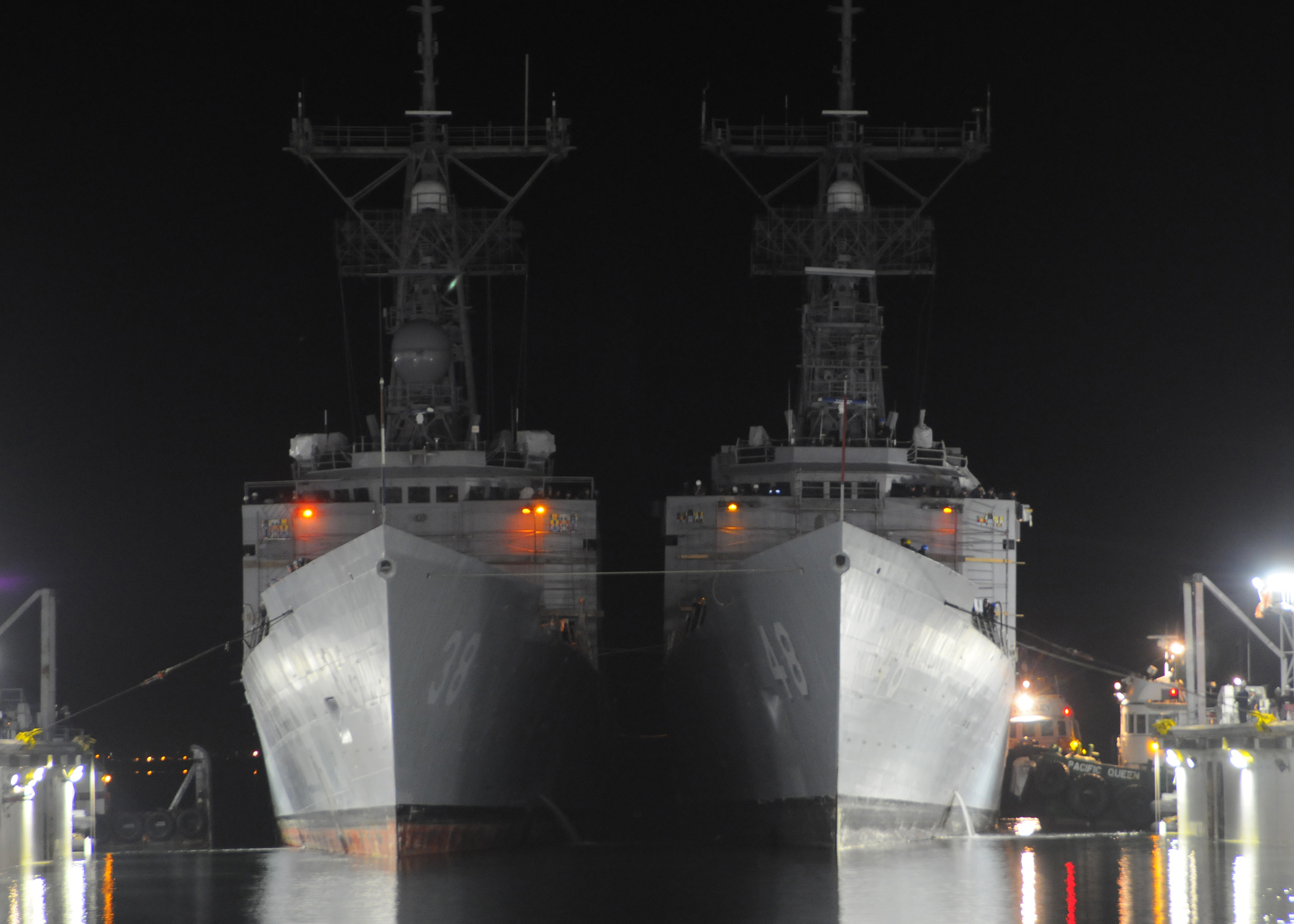 SAN DIEGO (April 29, 2011) The guided-missile frigates USS Vandegrift (FFG 48) and USS Curts (FFG 38) conduct a double dry-docking at General Dynamics NASSCO shipyard in San Diego. (U.S. Navy photo by Mass Communication Specialist 3rd Class Foster Bamford/Released)